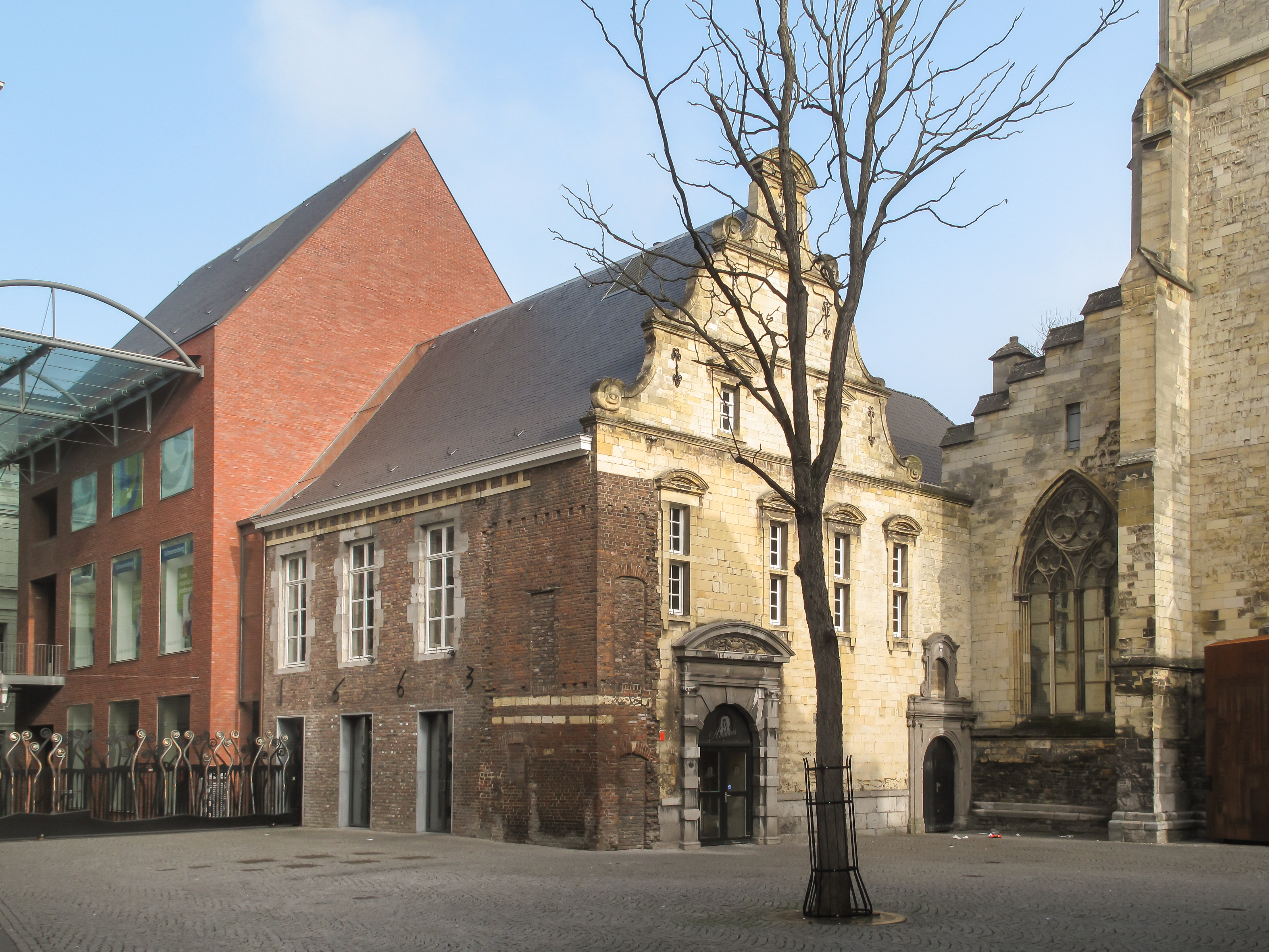 Maastricht, book shop: Selexyz Dominikanen